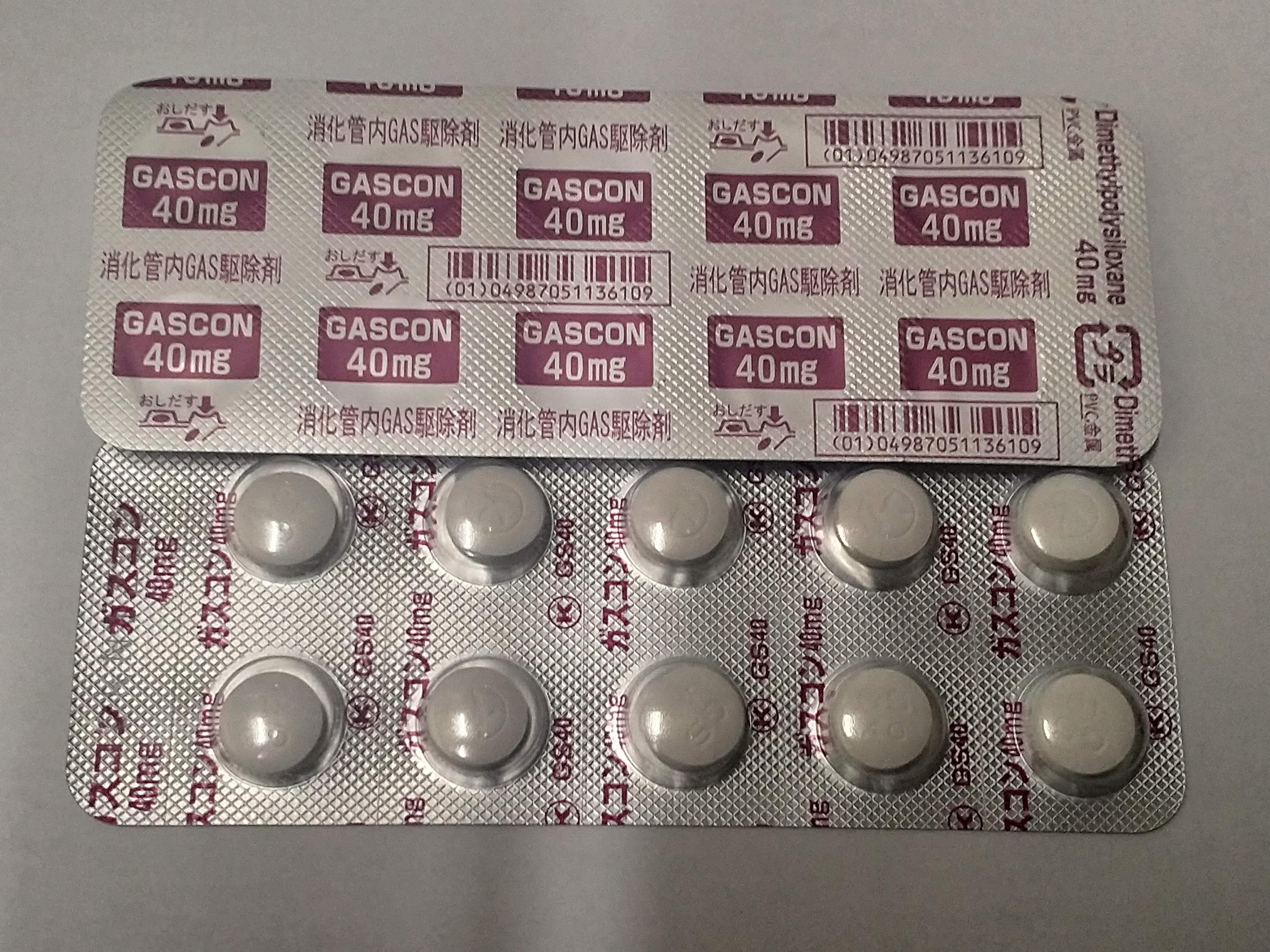 Simeticone 40mg blister pack, marketed in brand name Gascon